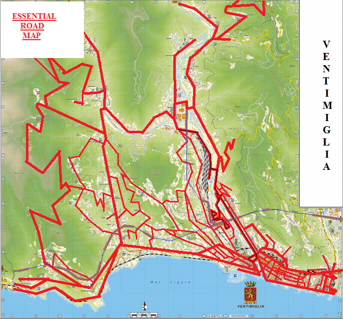 Ventimiglia essential road map